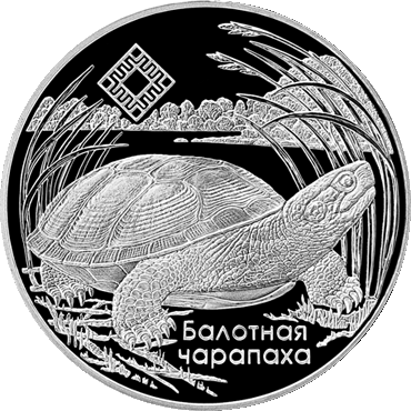 Environmental protection. Commemorative coins "Syarednyaya Prypyats" (Mid-Pripyat)